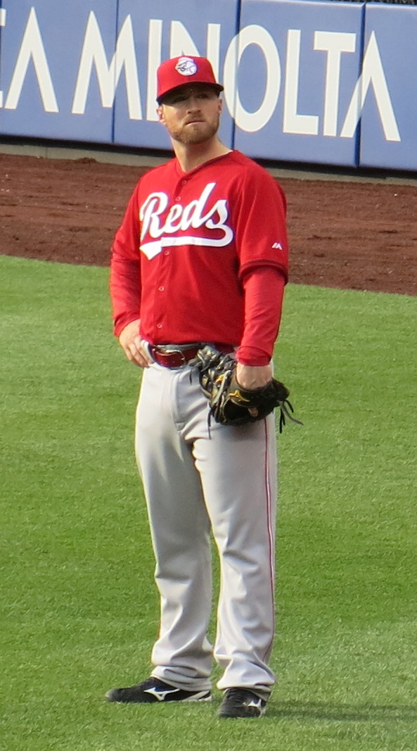 Tucker Barnhart with the Cincinnati Reds during pre-game warmups, April 25, 2016.